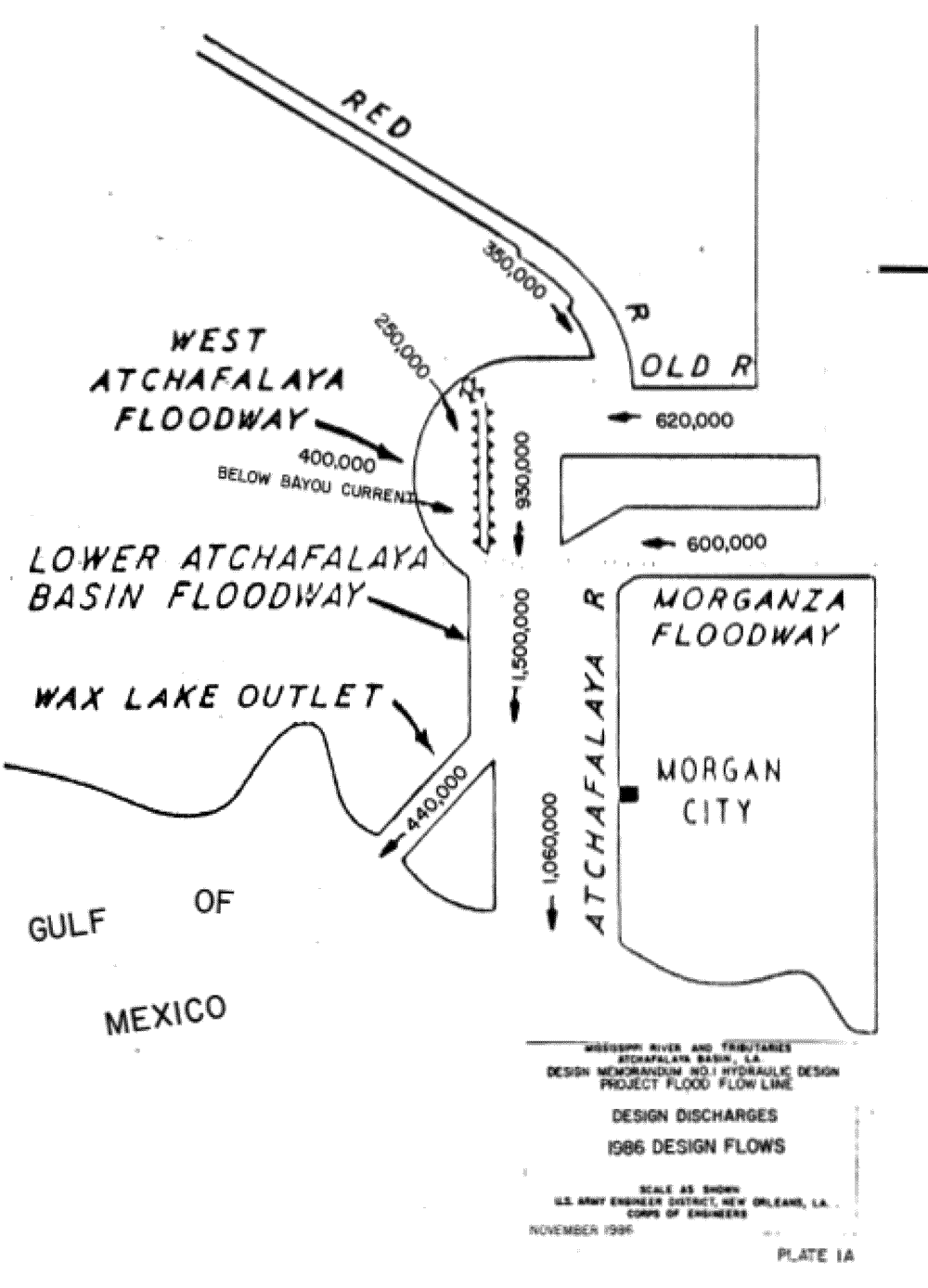 Flow through the Morganza Spillway at maximum design values.